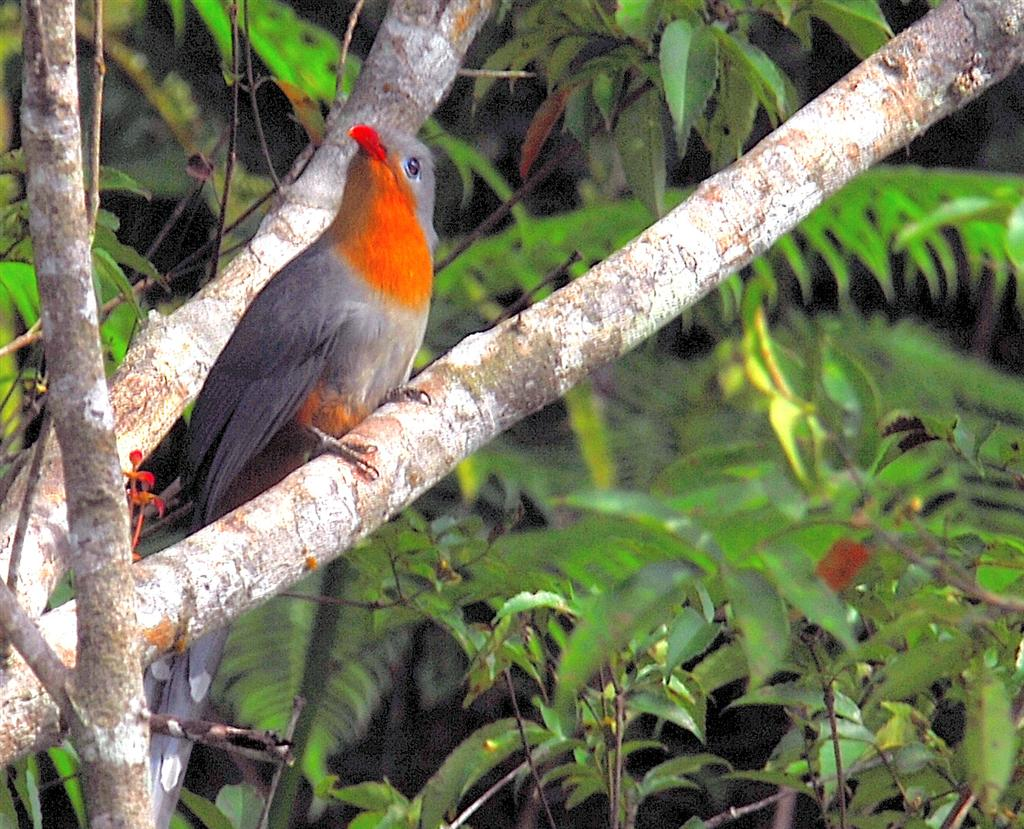 Red-billed Malkoha Zanclostomus javanicus, Fraser Hill, Malaysia